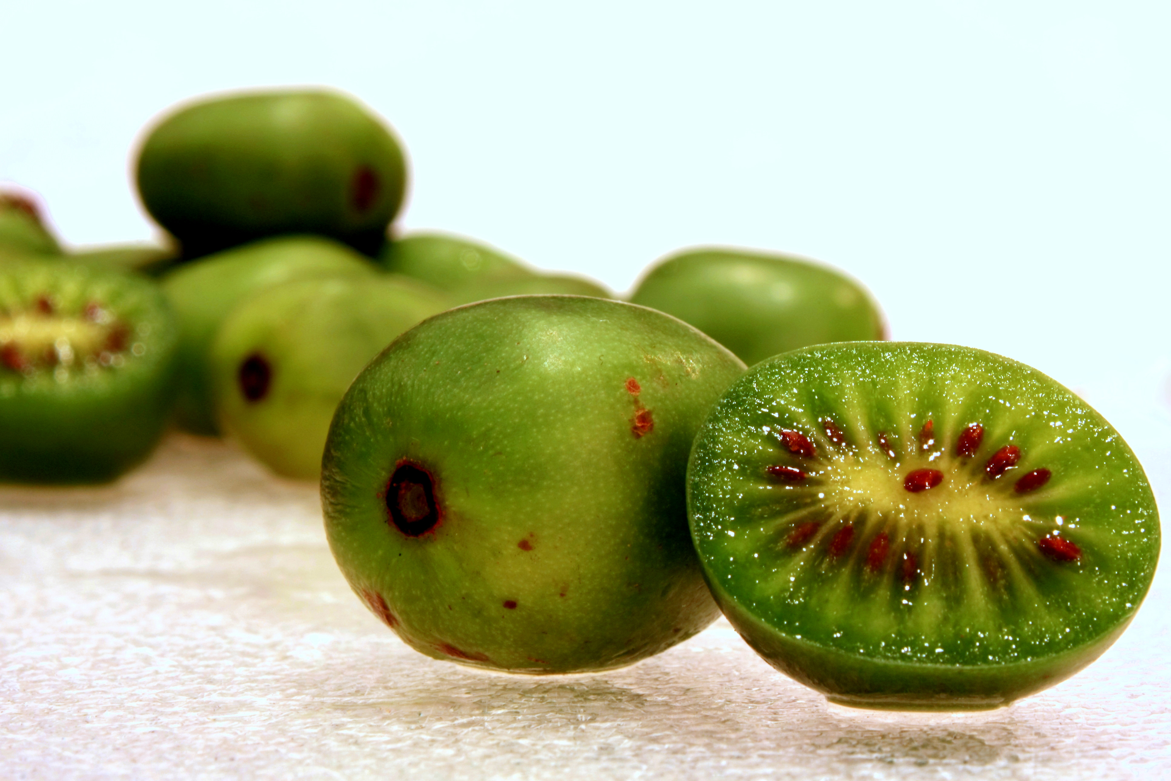 Cross-sectioned and whole Hardy Kiwifruit (Actinidia arguta), commonly called "Baby Kiwis" or "Kiwi Berries". These particular Hardy Kiwis were grown in New Zealand during the February 2010 season.